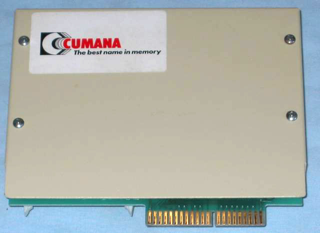 Cumana Floppy Disk System (front).Here are two examples of the Cumana Floppy Disk System which is designed to fit in a cartridge slot in an Acorn Plus 1 (or Slogger RomBox Plus). Normally it goes in the rear slot allowing the other slot to be used for other cartridges. A disc drive, manual and utilities disk normally completed the package. The disk drive connects to the socket on the bottom right of the circuit board. The Cumana Foppy Disc System uses a M5W1793-02P disc controller which is a Mitsubishi clone of the WD1793. The cartridge also has a sideways ROM socket, in this case used for a Slogger T2CU ROM, to transfer cassettes to disc. There is a blue battery on the left of the circuit board which is battery backup to the CDM6116AE2, 2KB static RAM. The HD1468 Real Time Cloack is to the left of the M5W1793 disc controller. Both examples are marked "ACACIA COMPUTERS (c) 1984 WD1a" but the are not identical. The tracking and screen printing on the circuit boards vary. I have now idea who Acacia Computers were.